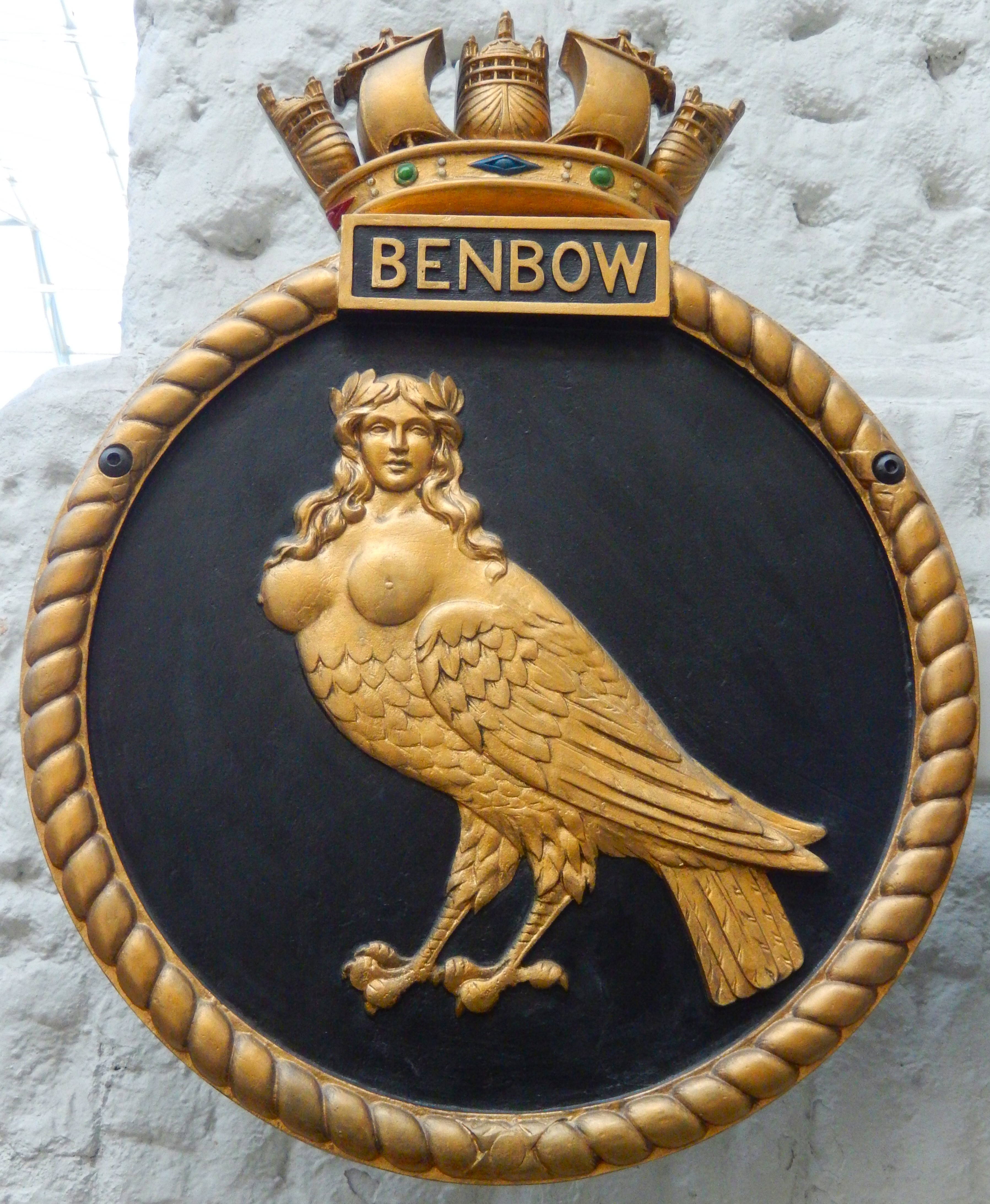 Badge of HMS Benbow National Maritime Museum, Greenwich